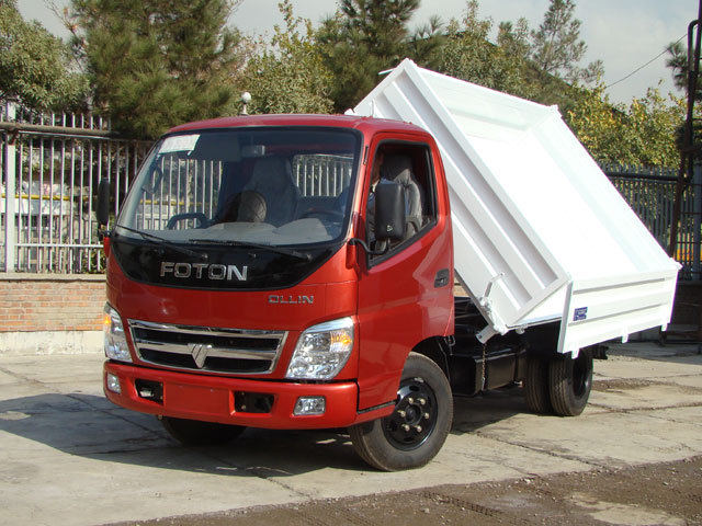 3-Way Tipper